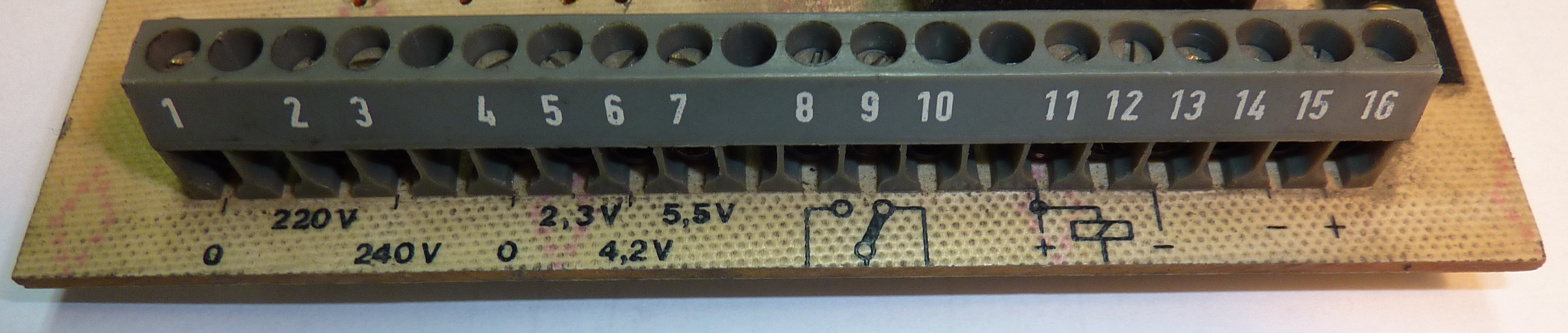 Screwable electrical connectors soldered on a printed circuit board (PCB)